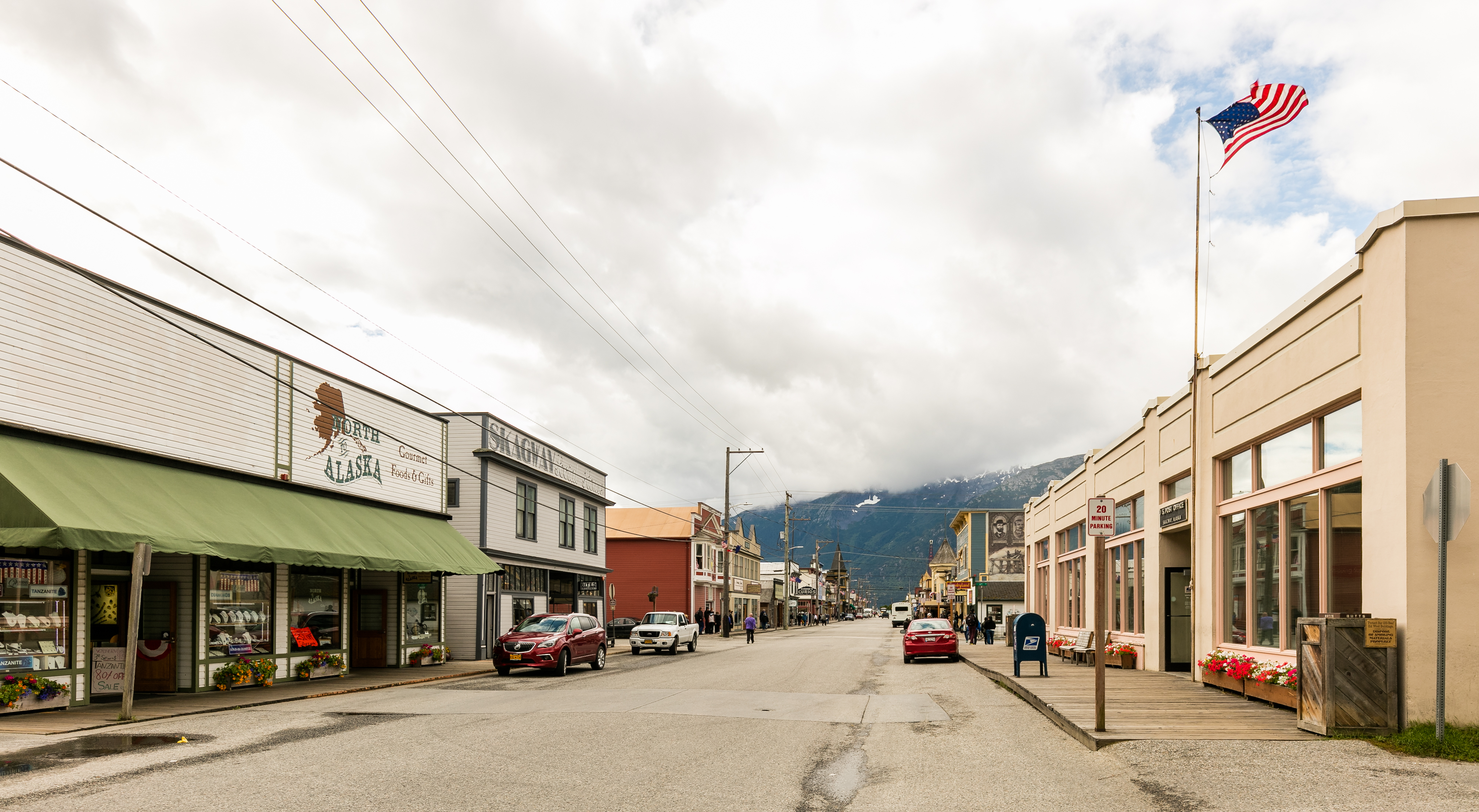 Skagway Historic District, Alaska, United States